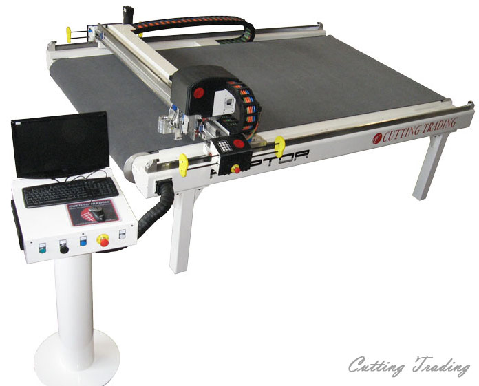 Cutting Plotter / automatic cutting machine with tangential blade